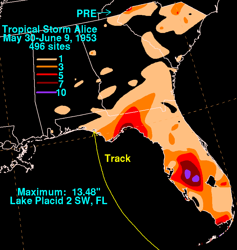 Storm total rainfall map of Tropical Storm Alice during May and June 1953.